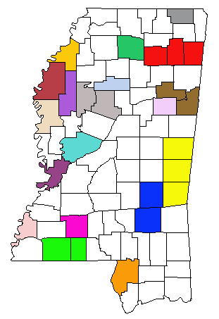 Map of Mississippi's Micropolitan Areas; created using the GIMP. Made by User:Acntx.